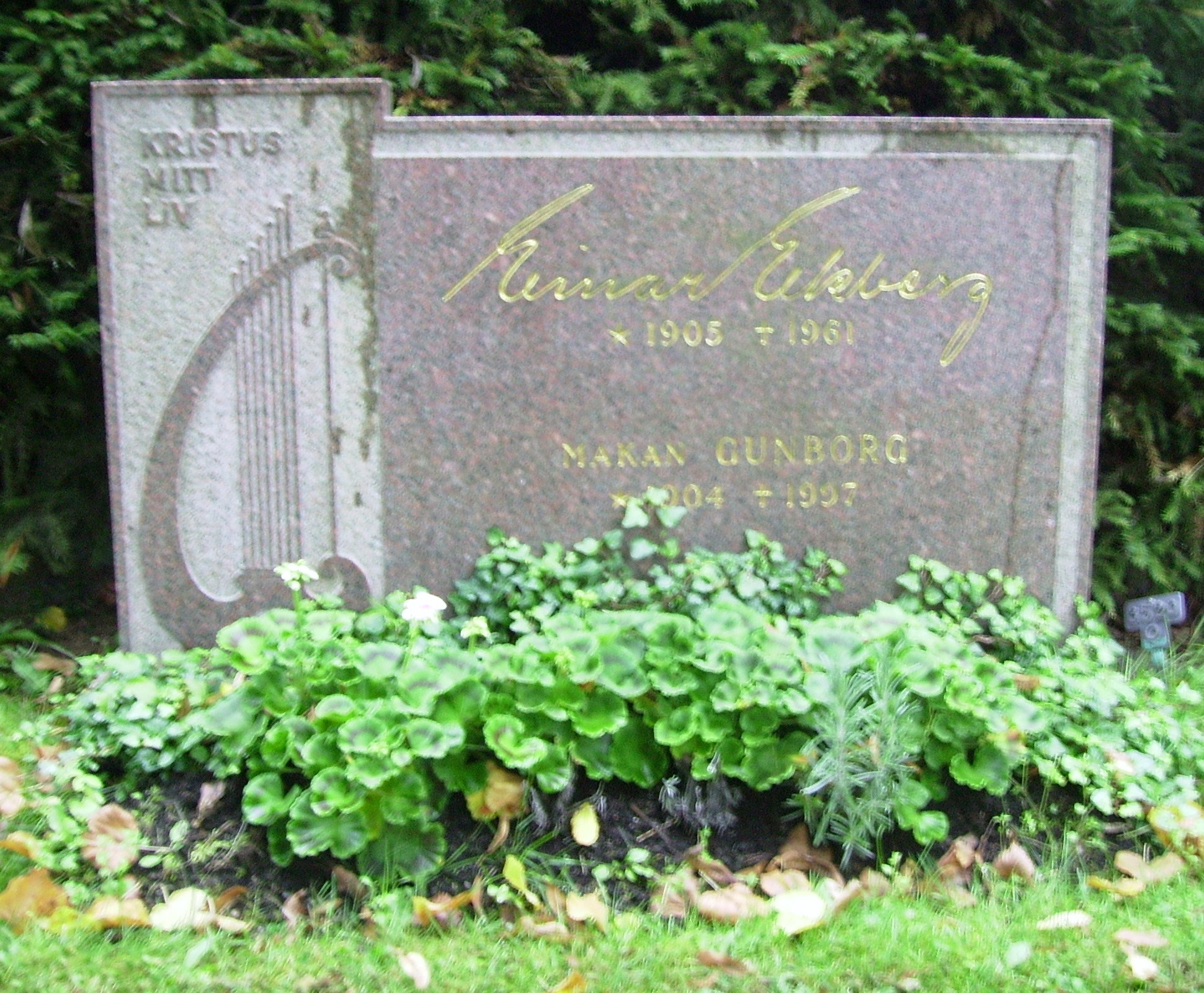 Picture of Einar Ekberg's grave at Södertälje kyrkogård